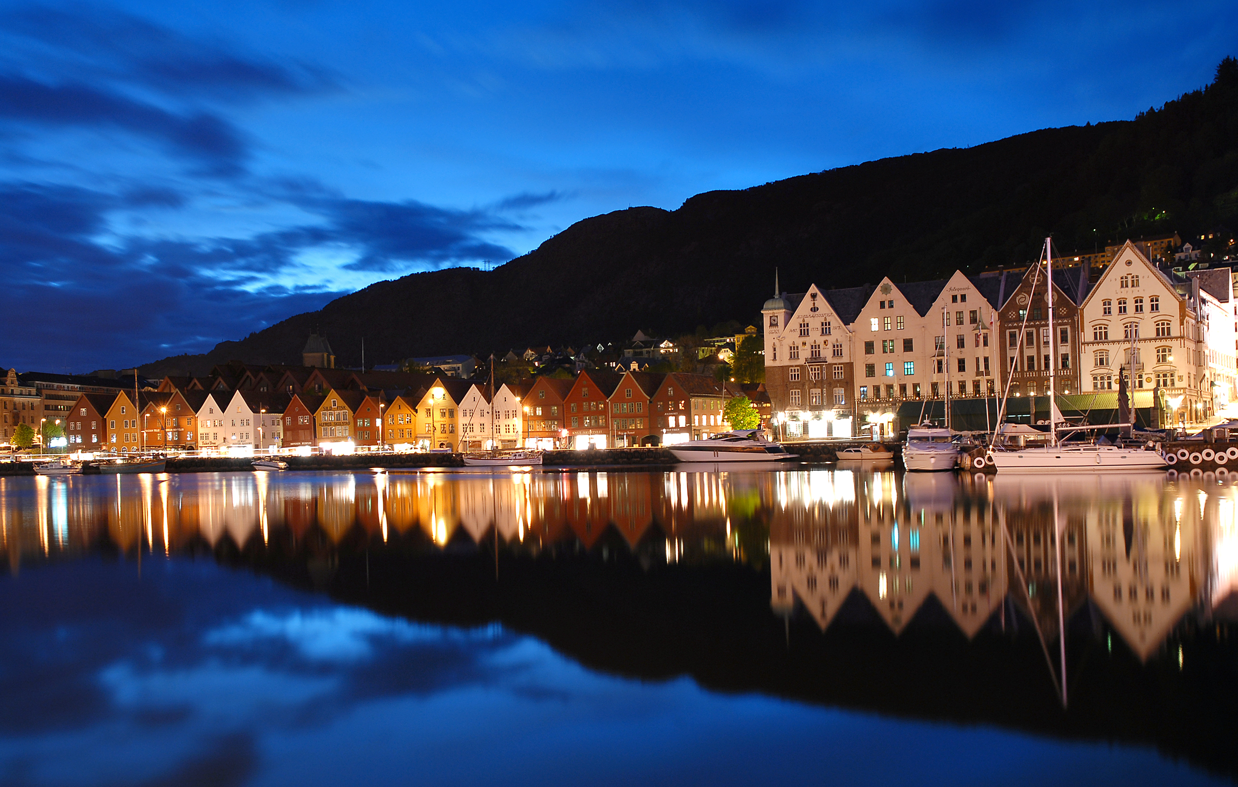 Bryggen, Bergen city by night.